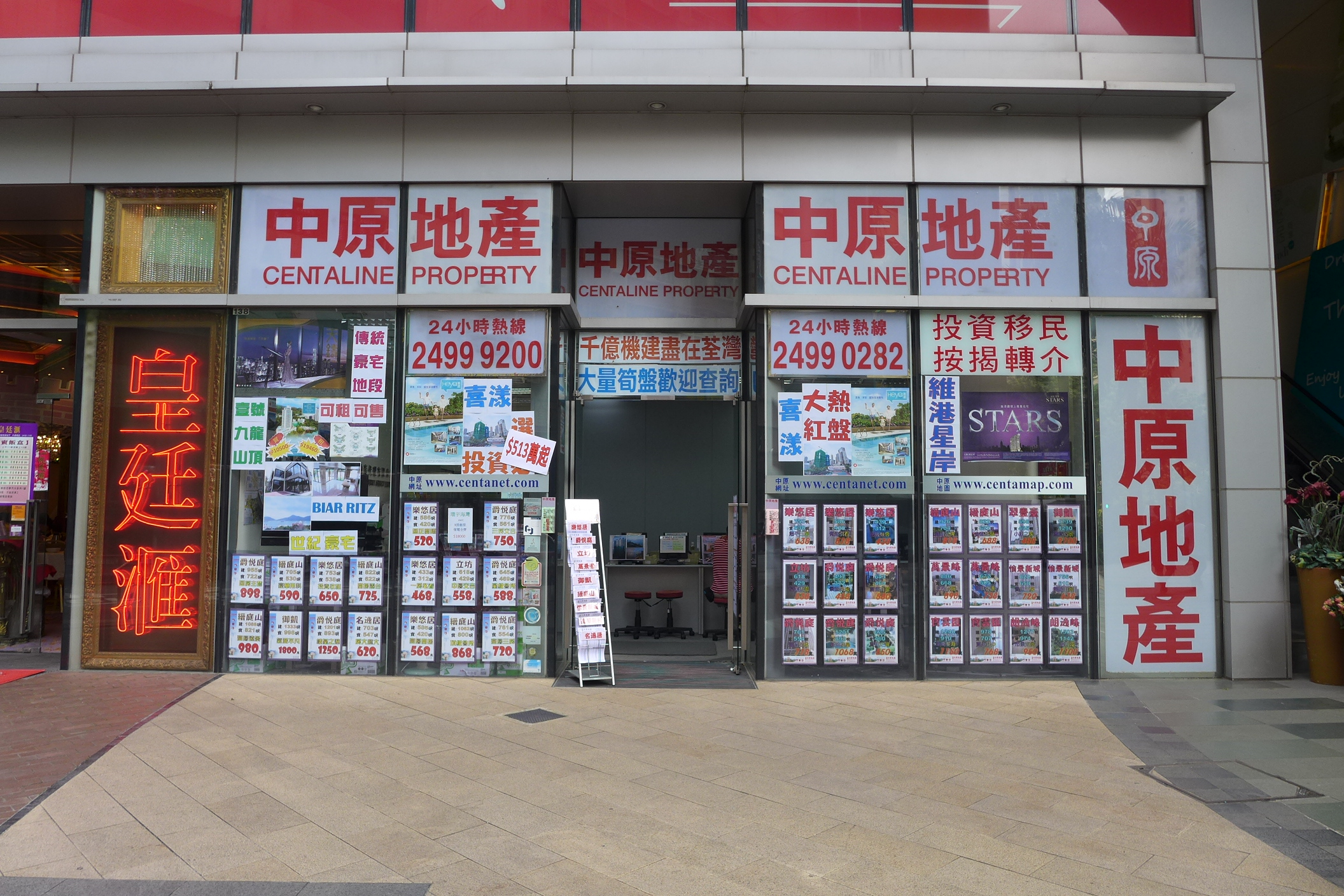 Centaline Property in Tsuen Wan Indi home